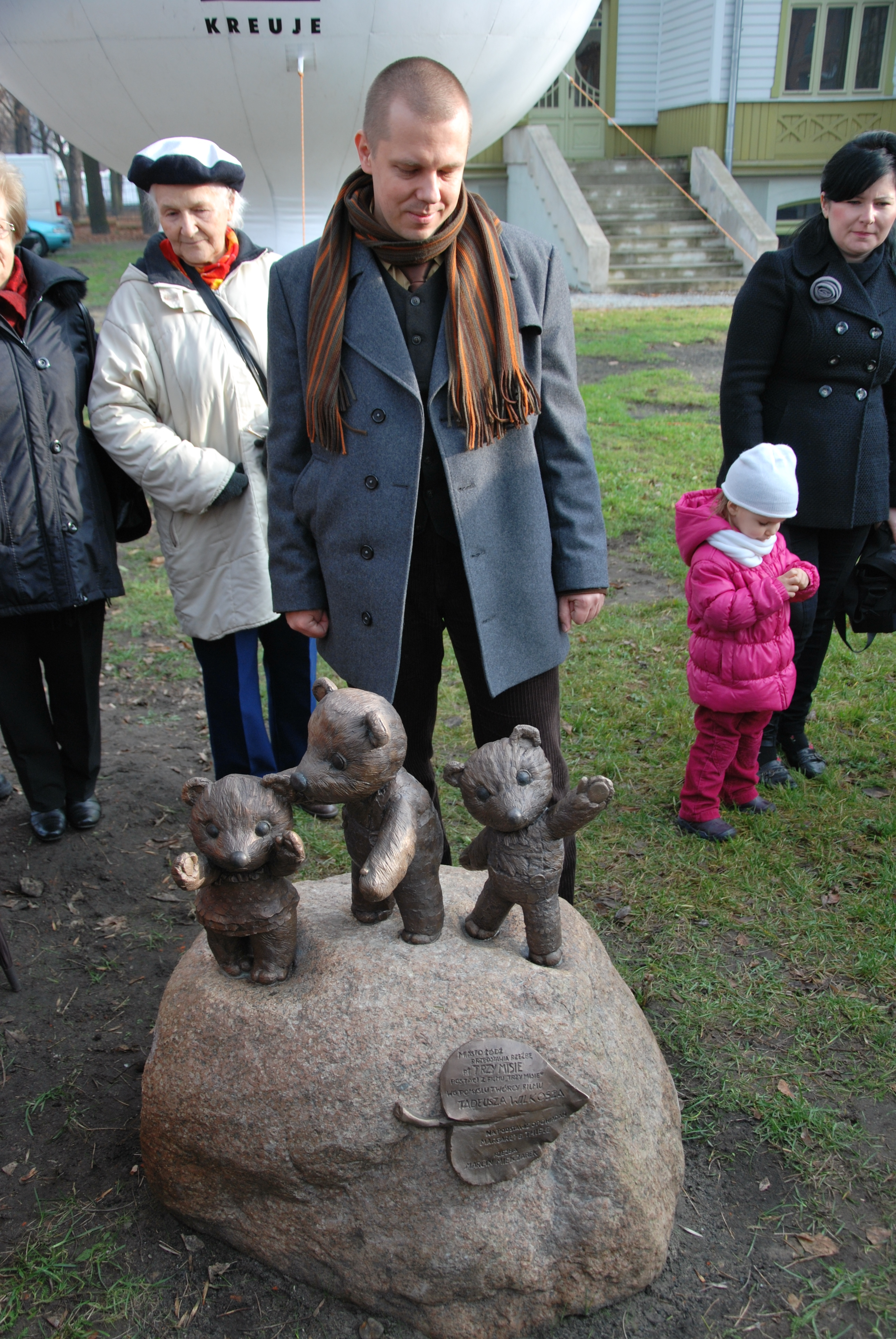 Three Bears Sculpture, Łódź and their sculptor